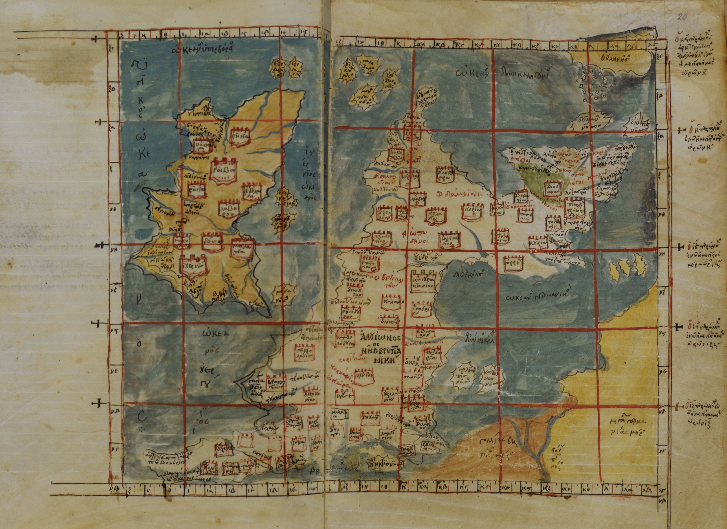 A Greek-language map of Hibernia (Ireland) and Albion (Great Britain) derived from Ptolemy's Geography, probably in the early 14th century at Constantinople (Istanbul), held by the Vatopedi Monastery on Mount Athos prior to its theft and purchase by the British Museum. The map reflects Ptolemy's mistaken placement of Scotland at a right angle to the rest of Britain, apparently derived from his reliance on seafarer's logs.